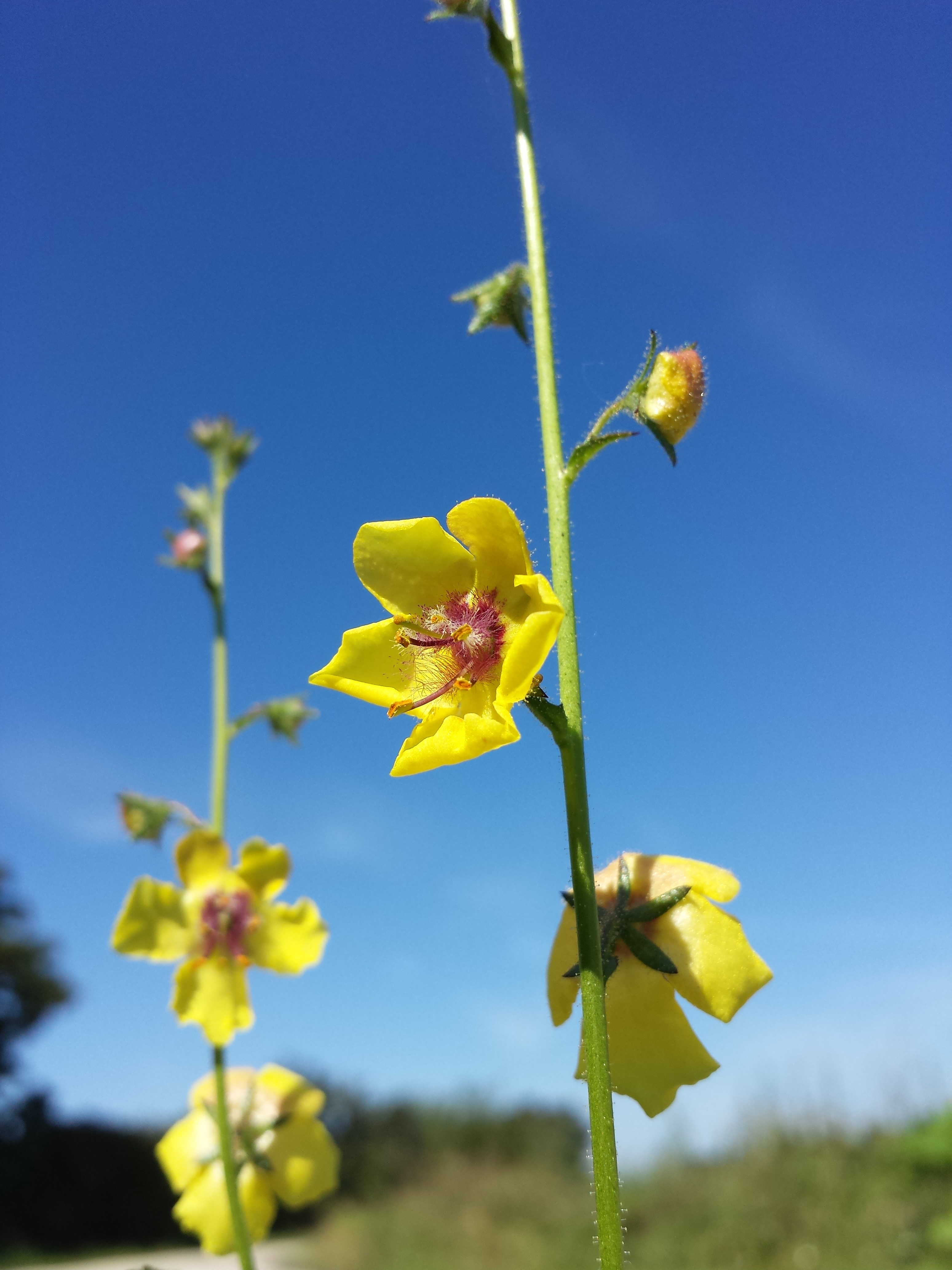 Inflorescences Taxonym: Verbascum blattaria ss Fischer et al. EfÖLS 2008 ISBN 978-3-85474-187-9 Location: nature reserve Zwingendorfer Glaubersalzböden - Hintausacker, district Mistelbach, Lower Austria - ca. 185 m a.s.l. Habitat: wayside